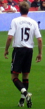 Bohemian FC 0-1 Sunderland AFC, Dalymount Park, Dublin 28/07/2007